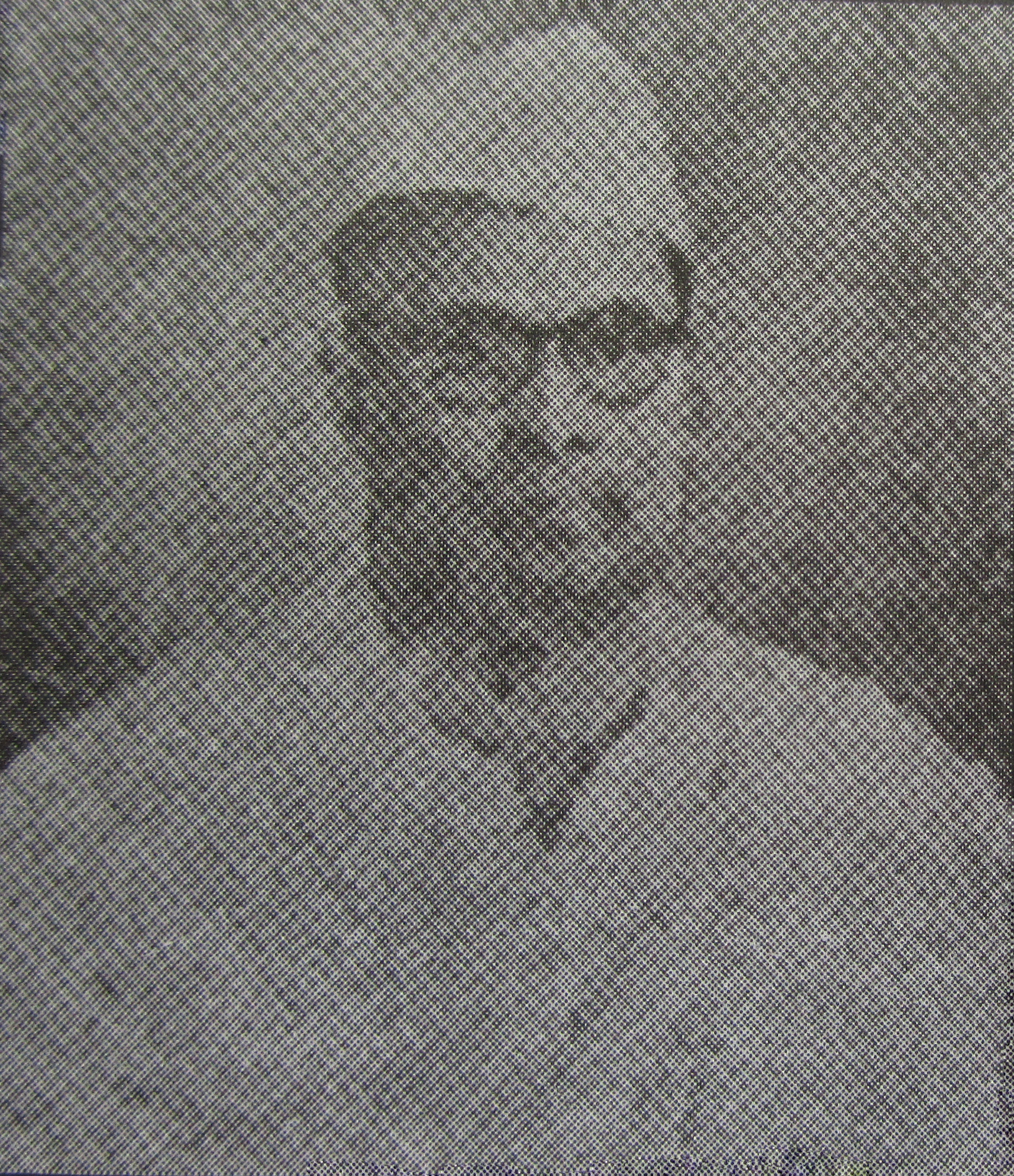 Vudebprasad Sen